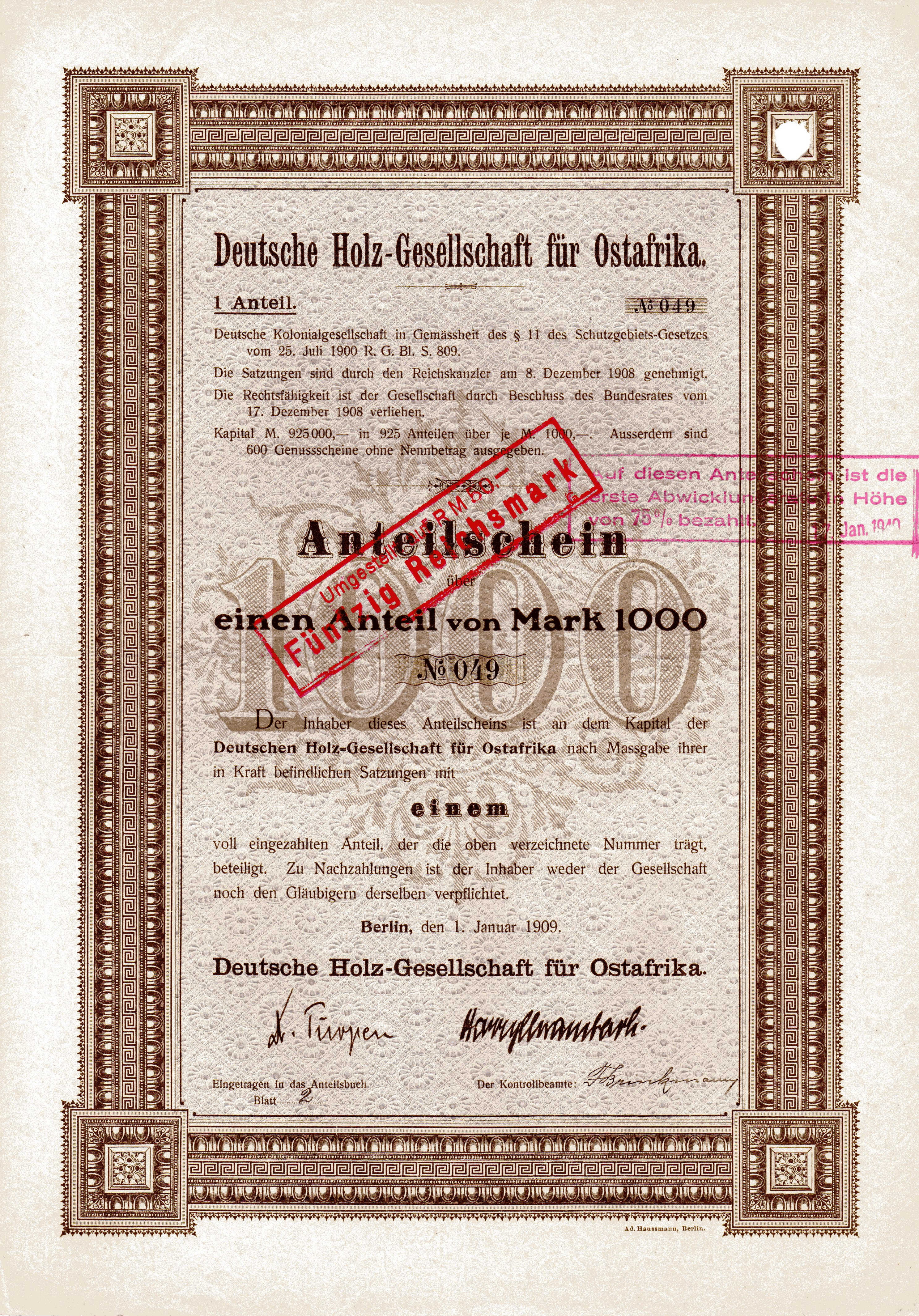 Share certificate of the Deutsche Holz-Gesellschaft für Ostafrika, issued 1. January 1909